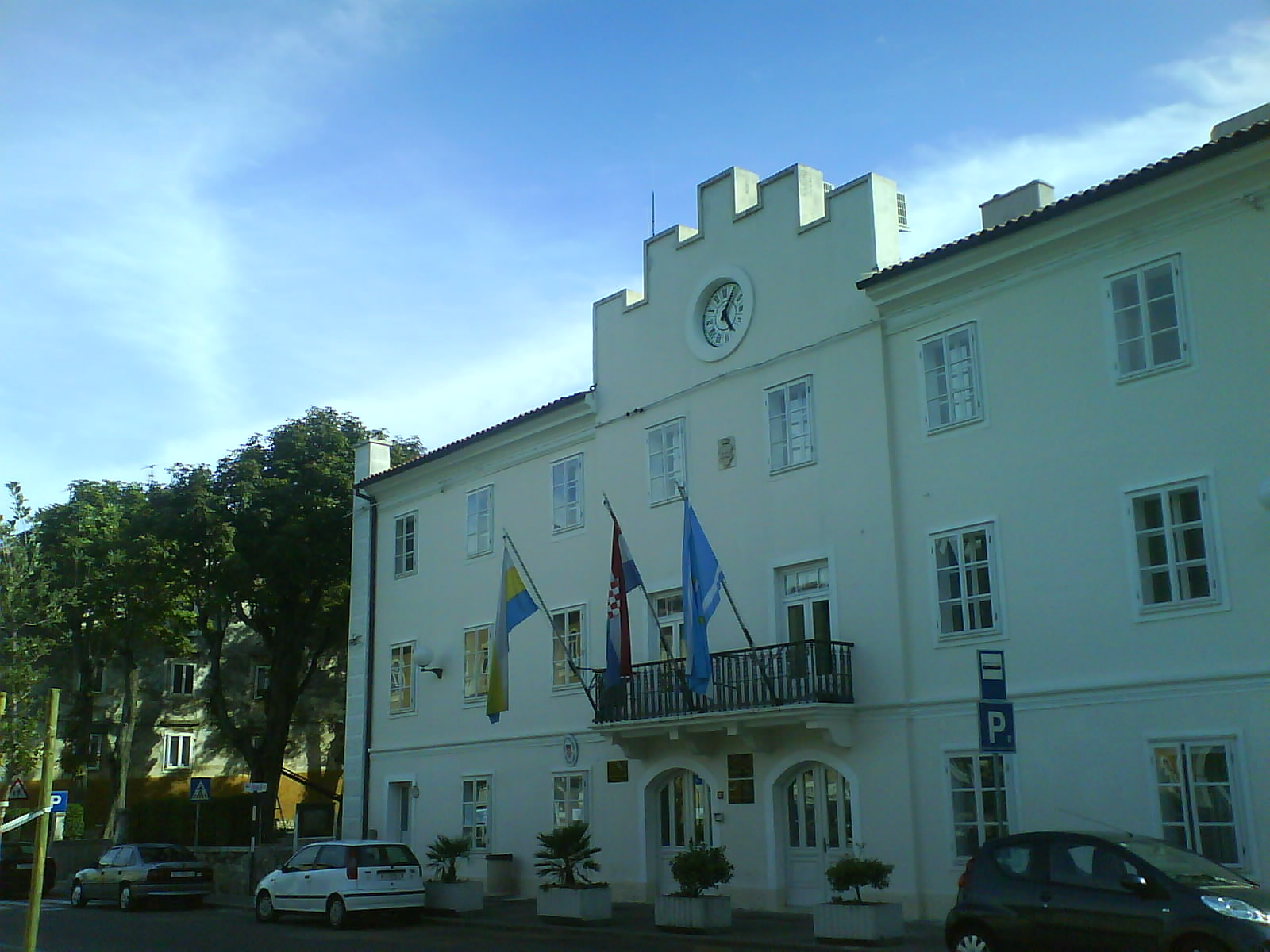 The city hall